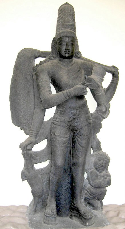 Kankalamurti, Nayak Palace Art Museum, Thanjavur. TN, INDIA